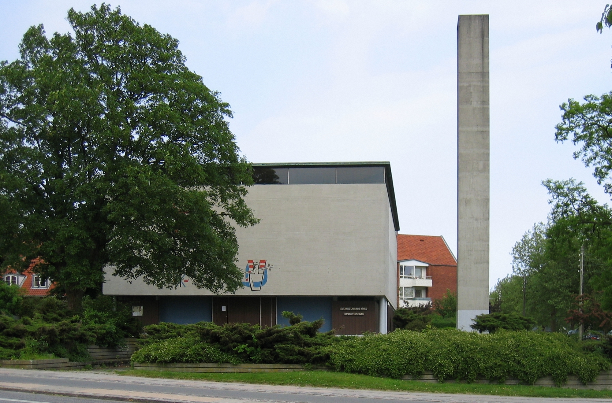 Sankt Knud Lavard church, Roman Catholic church, Royal Lyngby, Denmark.